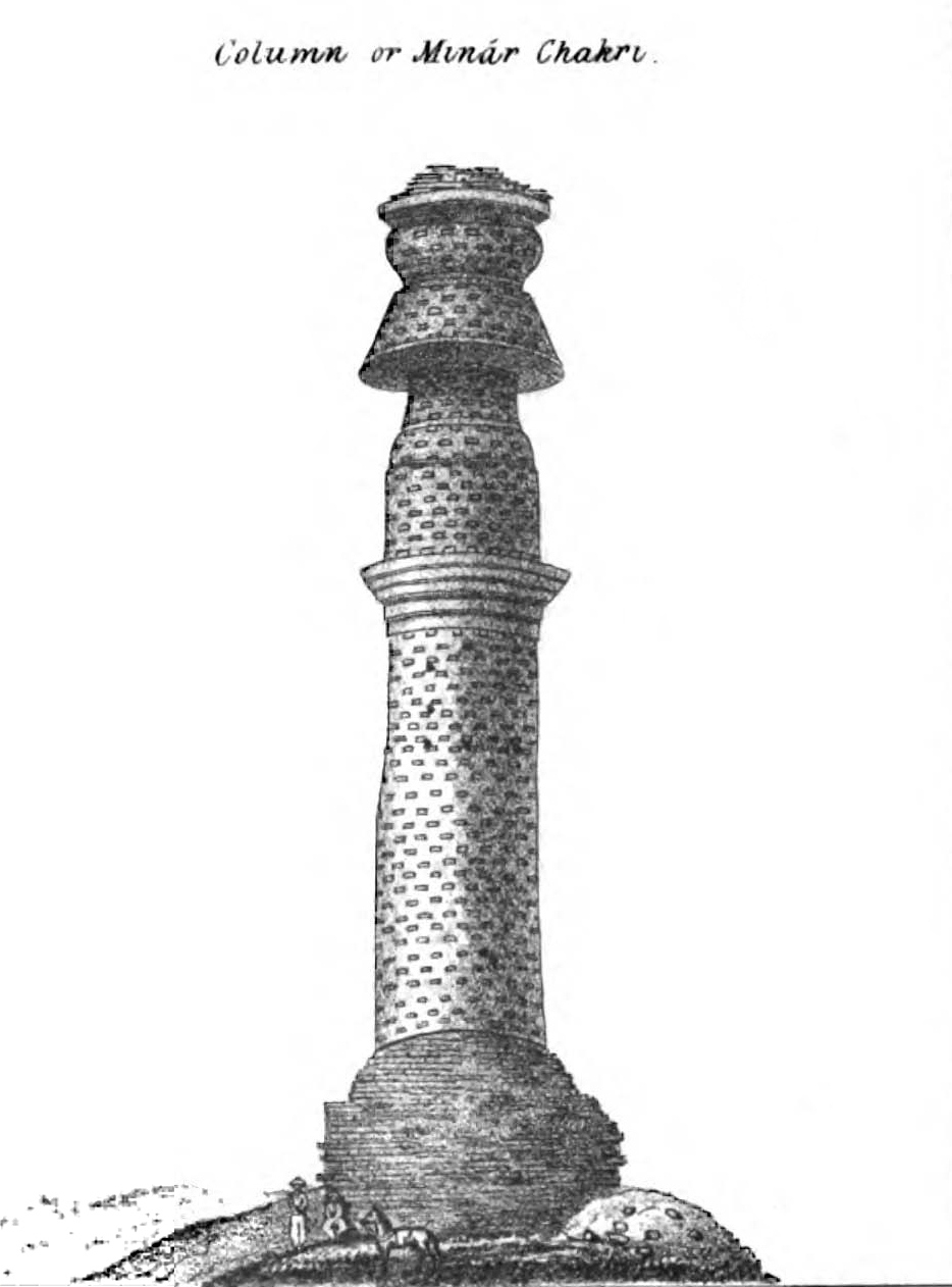 Column of Minár Chakri. sketch by Charles Masson, etched Sept. 1836, (see pages 114-115)